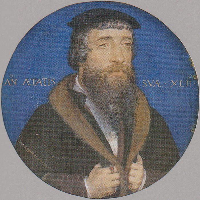 Watercolour portrait of William Roper